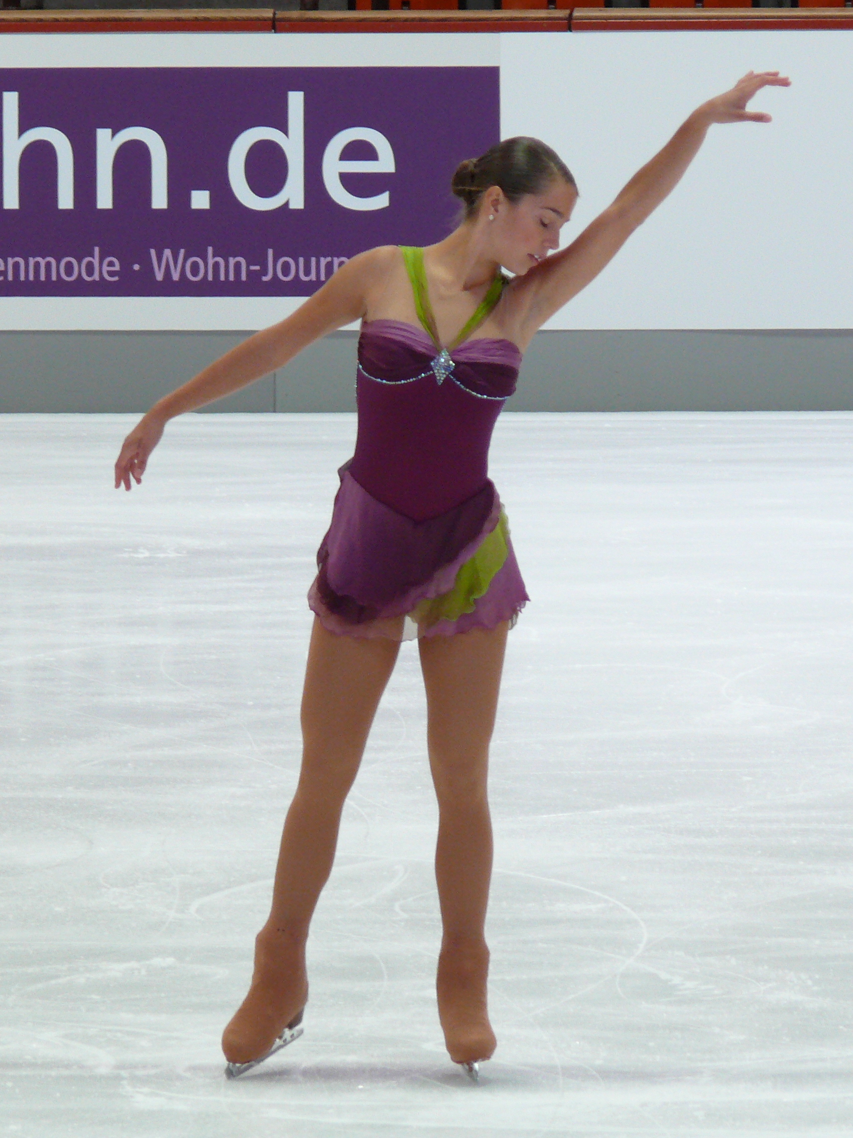 Alissa Czisny (USA) at her free programm at the Nebelhorntrophy 2008 in Oberstdorf, Germany